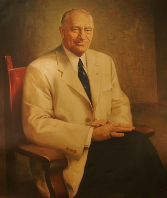 Conrad Hilton (cropped from File:Conrad Hilton (636210464).jpg)